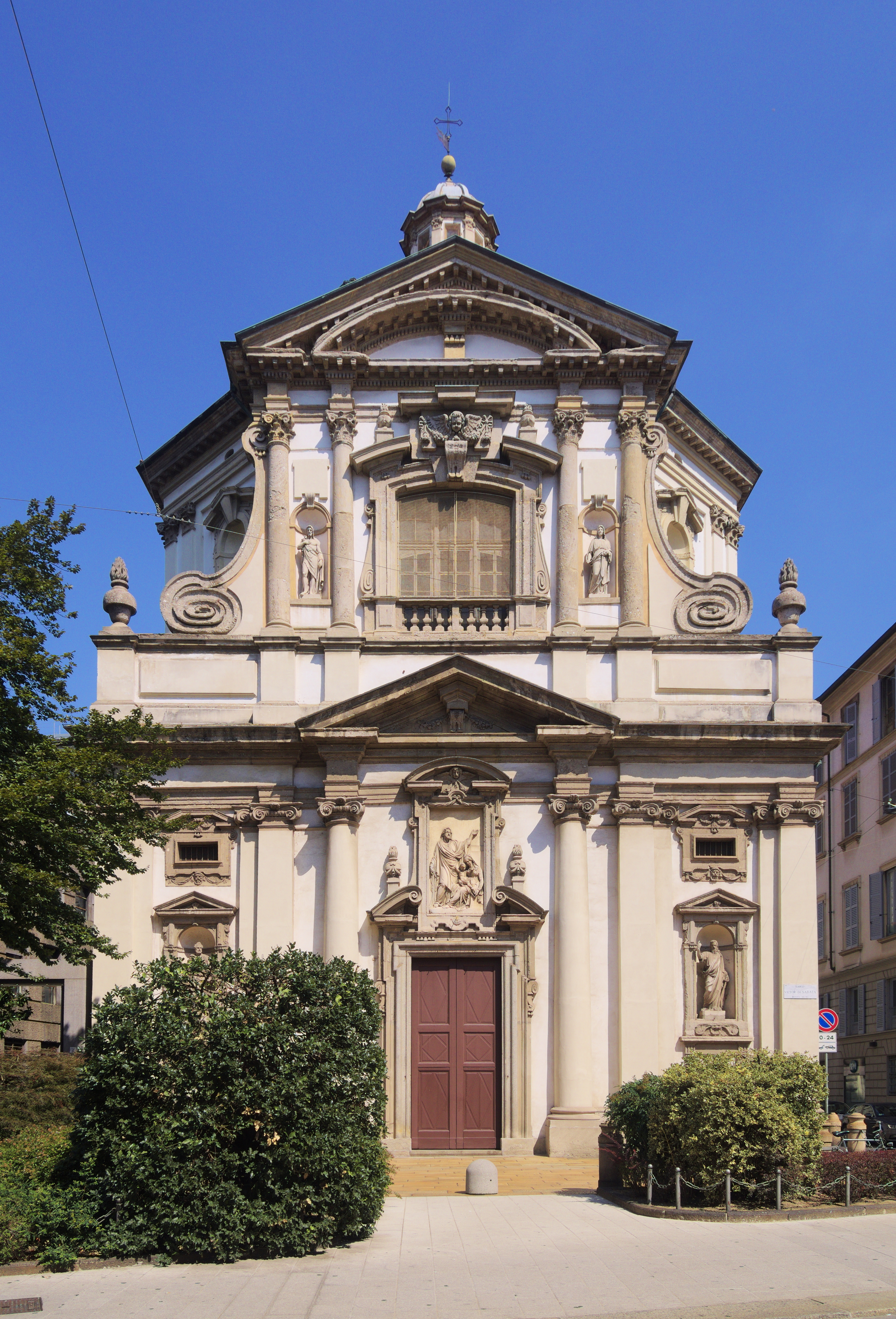 The facade of San Giuseppe, Milan